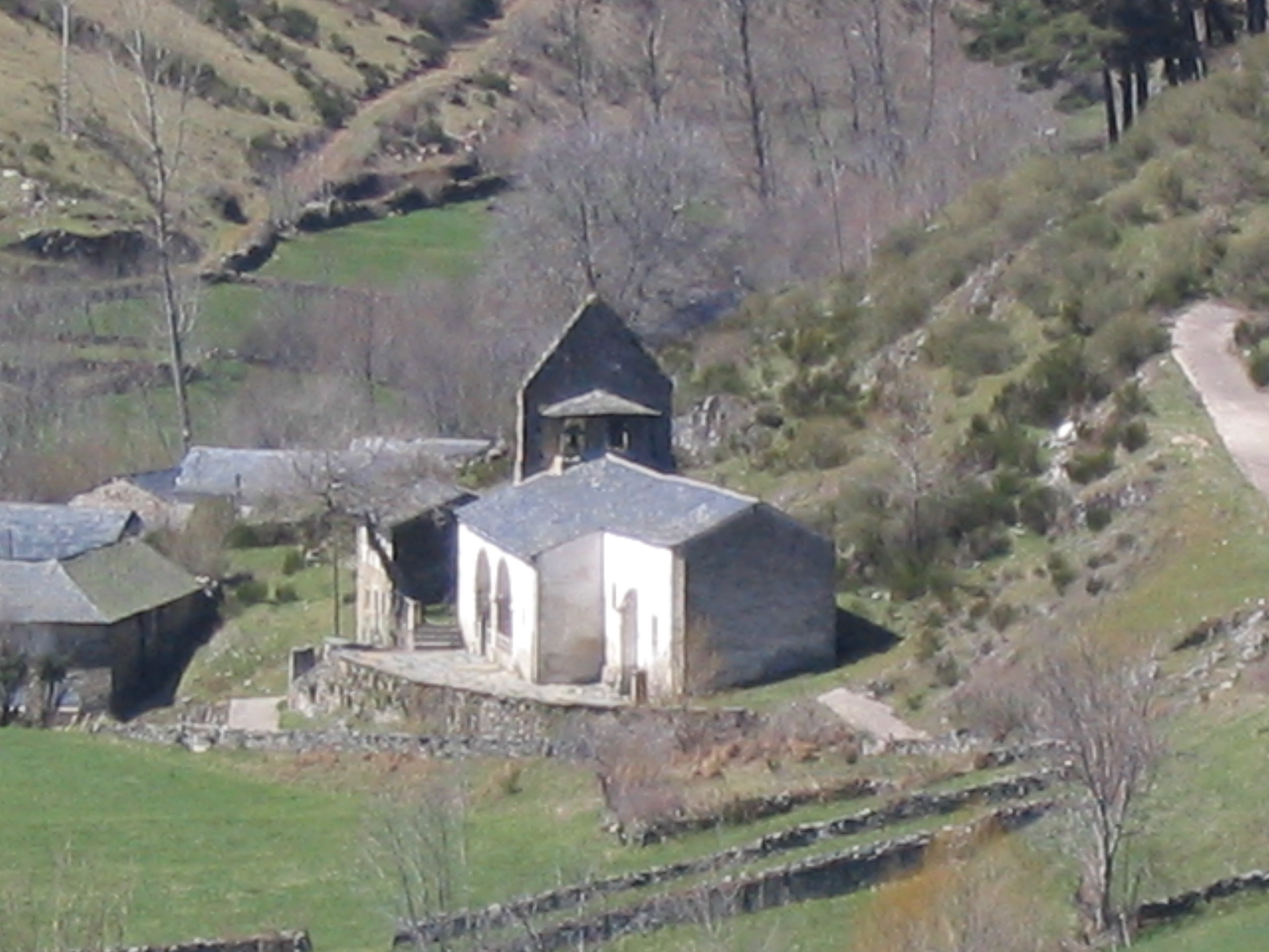 Church of Vegapujín, Leon, España